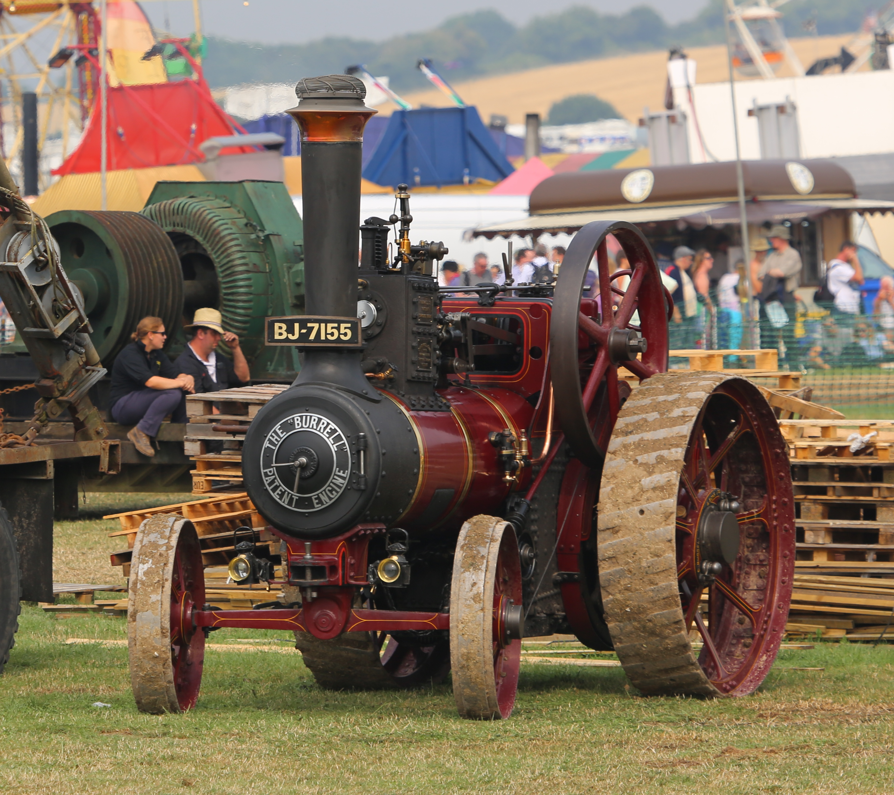 Photo of 1909 Burrell 6NHP general purpose engine number 3126. 2016 GDSF program number 249